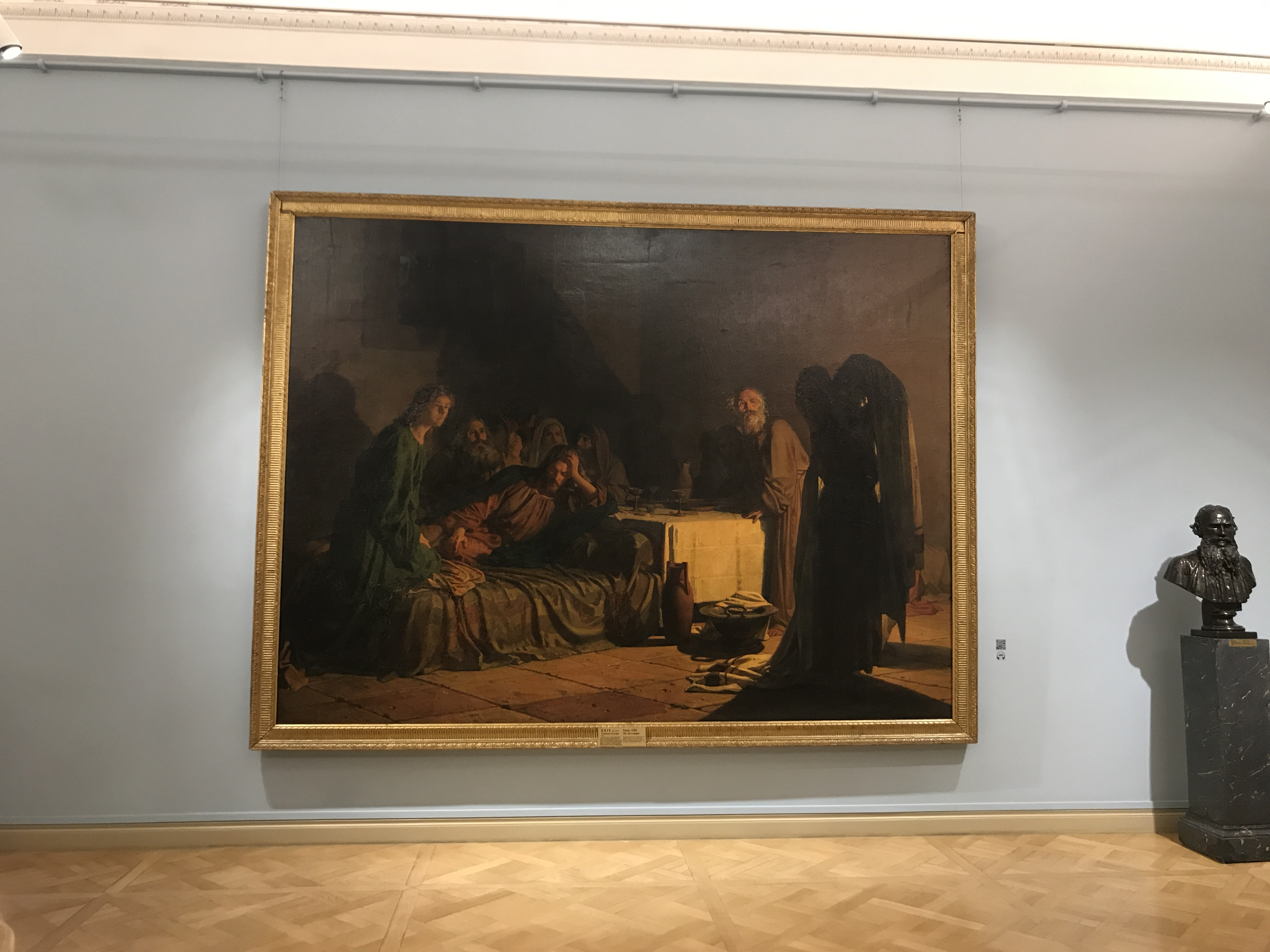 "The Last Supper" (painting by Nikolai Ge, 1863) in the State Russian Museum